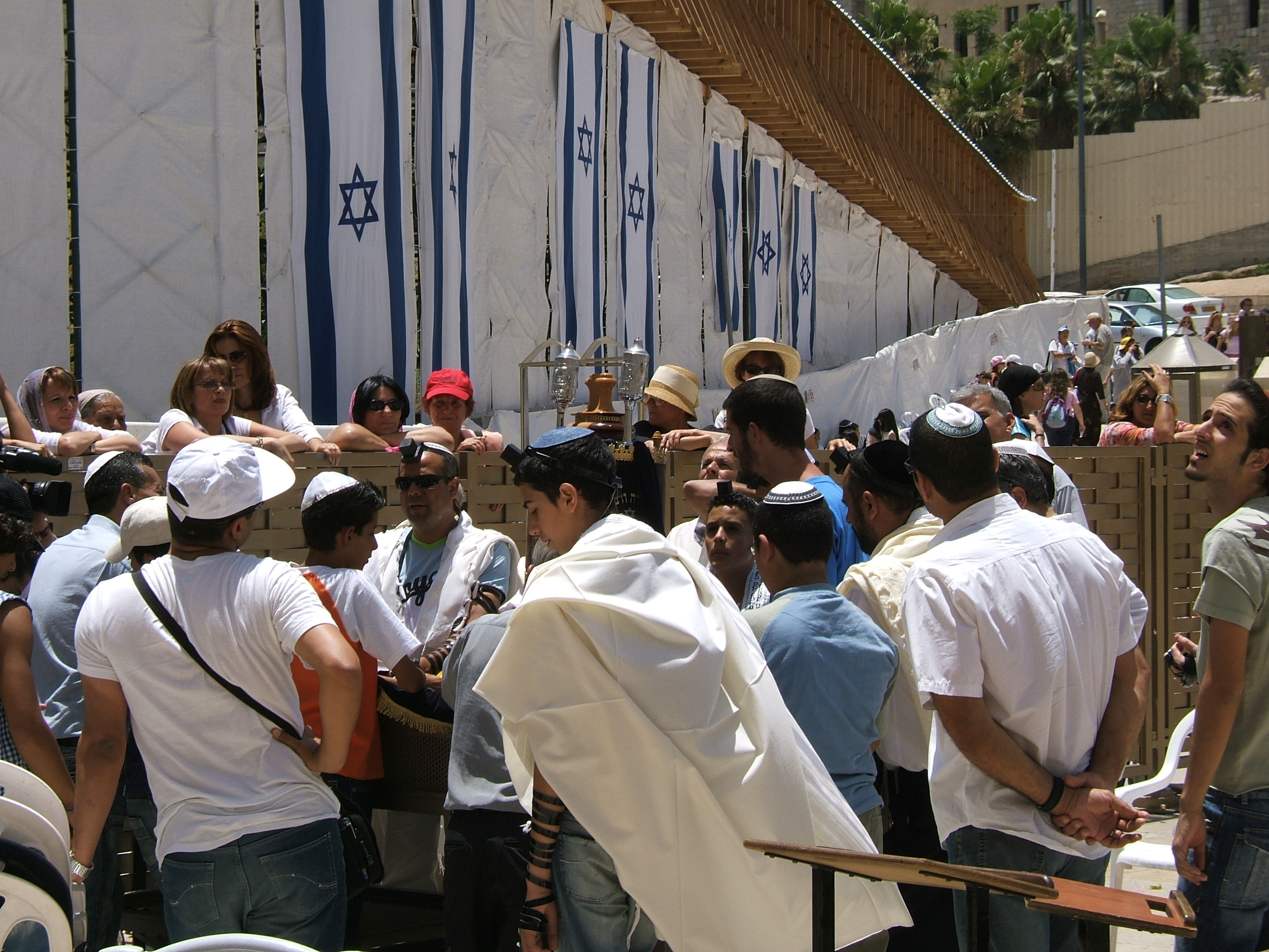 Bar mitzvah taking place next to the Western Wall (Wailing Wall) in Jerusalem, Israel. The picture was taken in 2005 by me User:Bantosh.